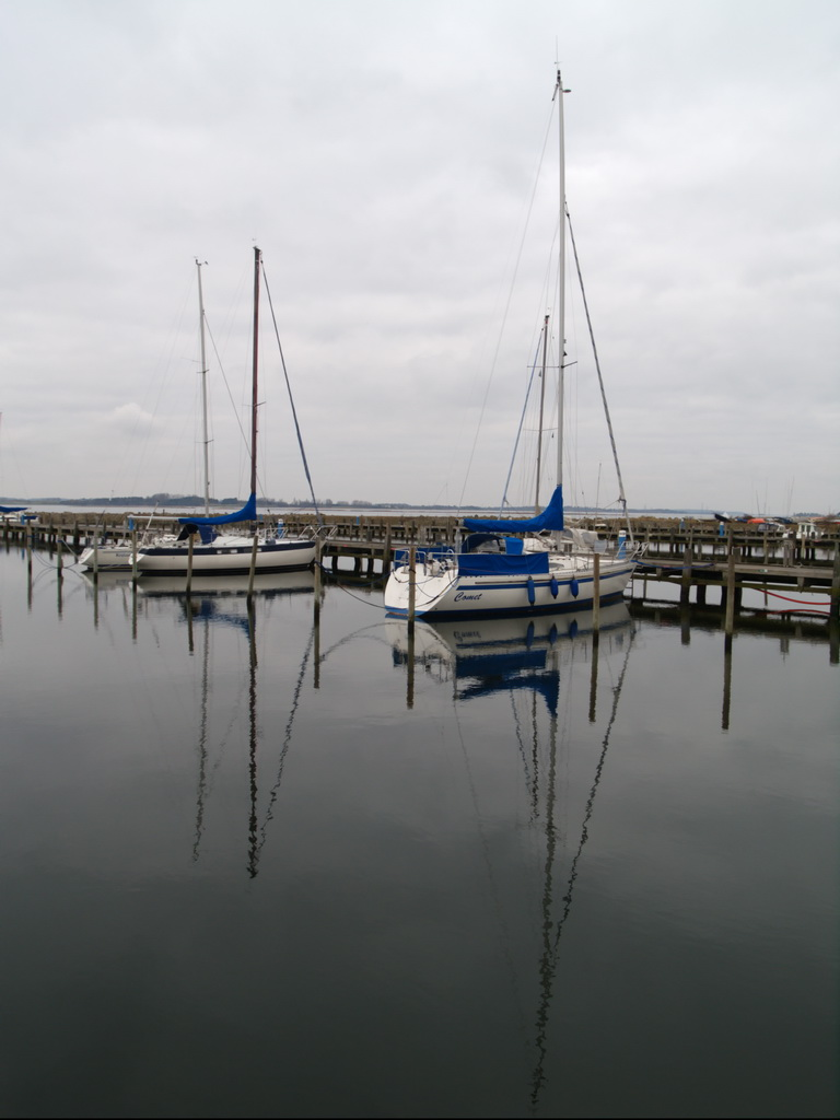 Porto de Jyllinge, num dia cinzento. Jyllinge harbour on a dull day.Jyllinge harbour